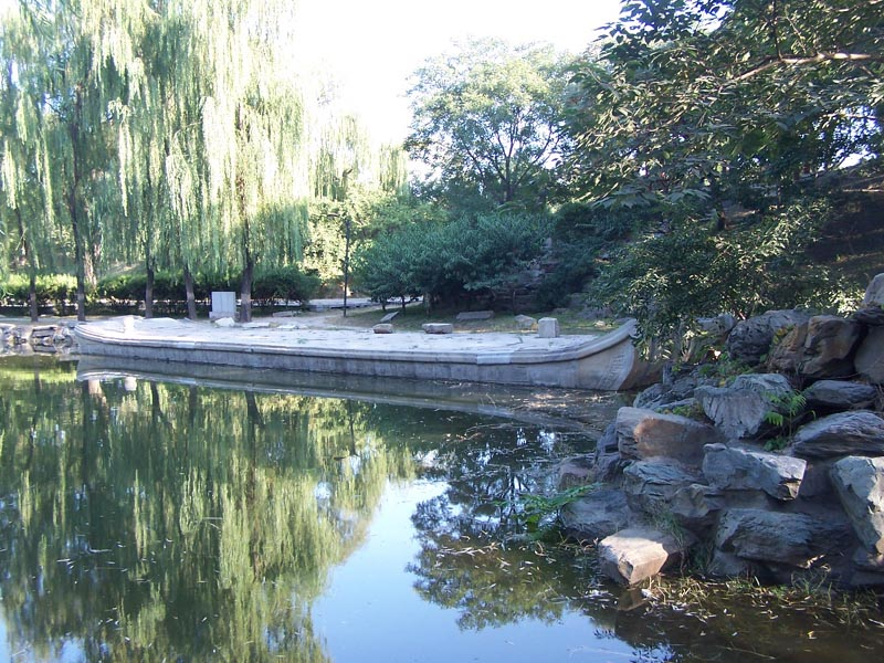 Yuanmingyuan (Old Summer Palace), Beijing. a stone boat. Remnants of the Marble Boat in Bieyou Dongtian(Place of Unique Beauty), boat-shaped base has been restored to its original form.